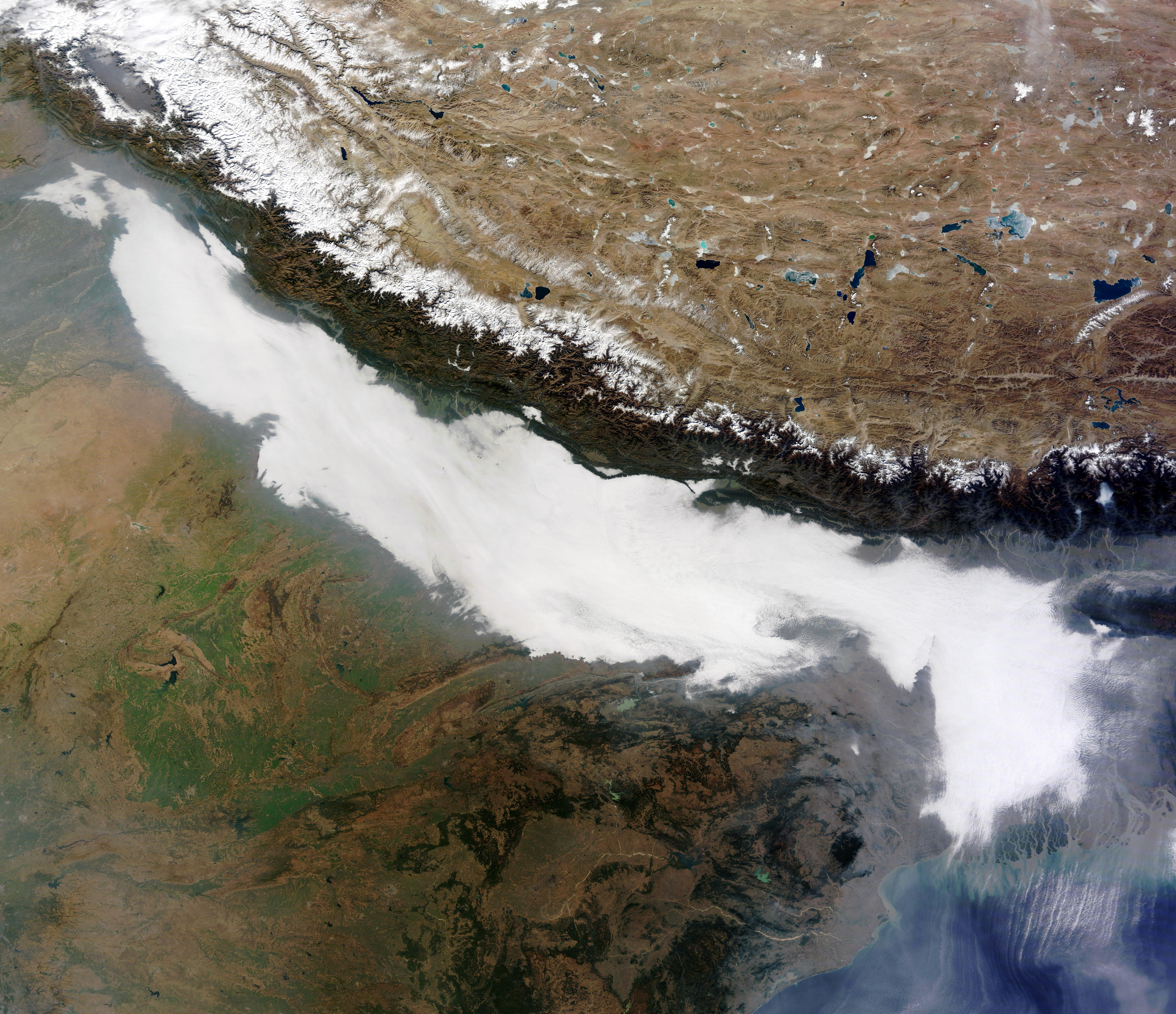 Dense fog over the Indian subcontinent on 23 December 2012.